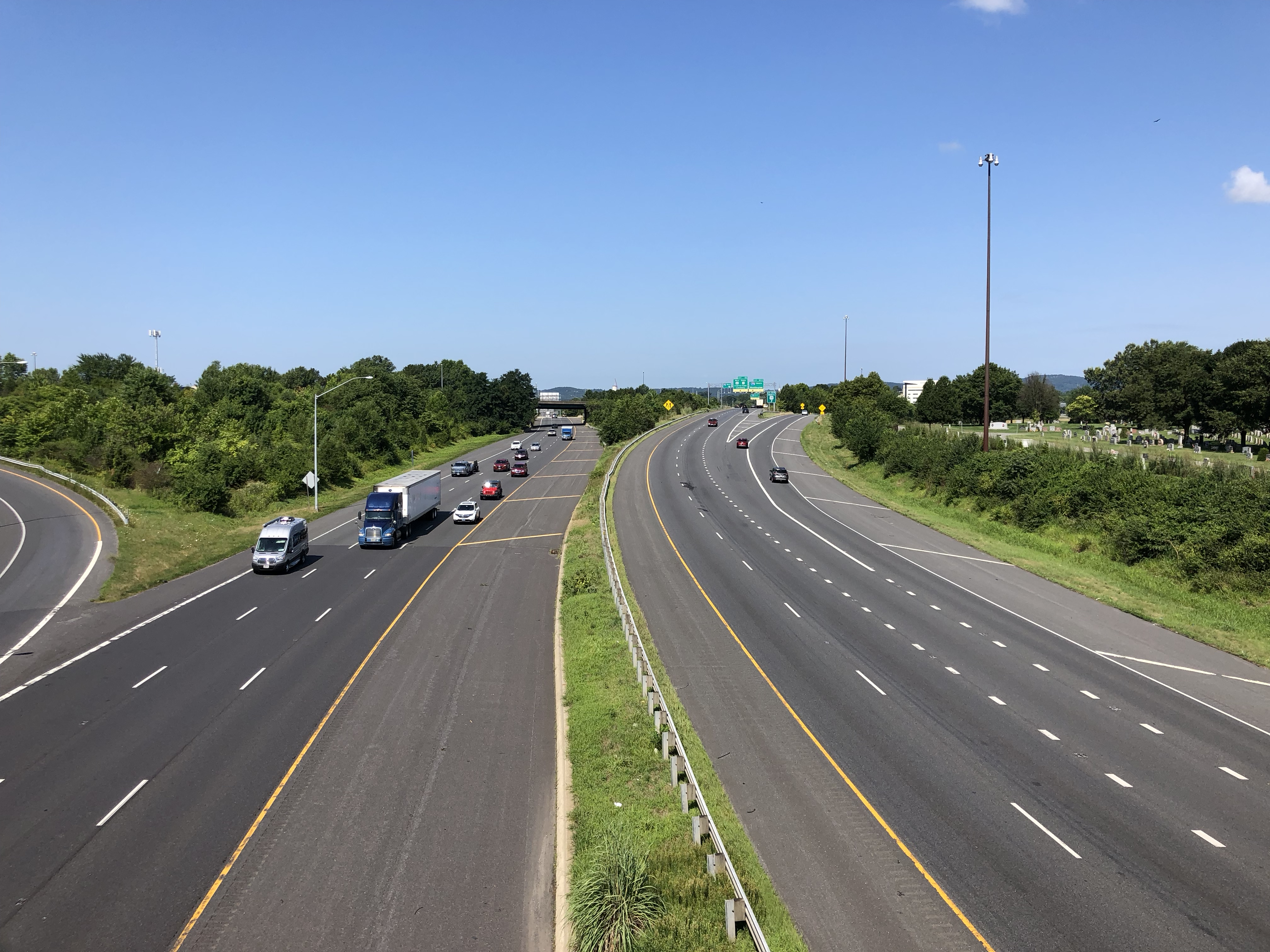 View west along Interstate 70 and U.S. Route 40 (Baltimore National Pike) from the overpass for New Design Road in Frederick, Frederick County, Maryland